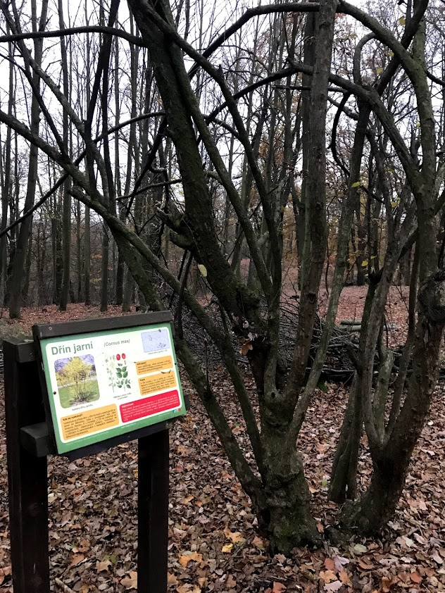 Popisná tabule s Dříní jarní.